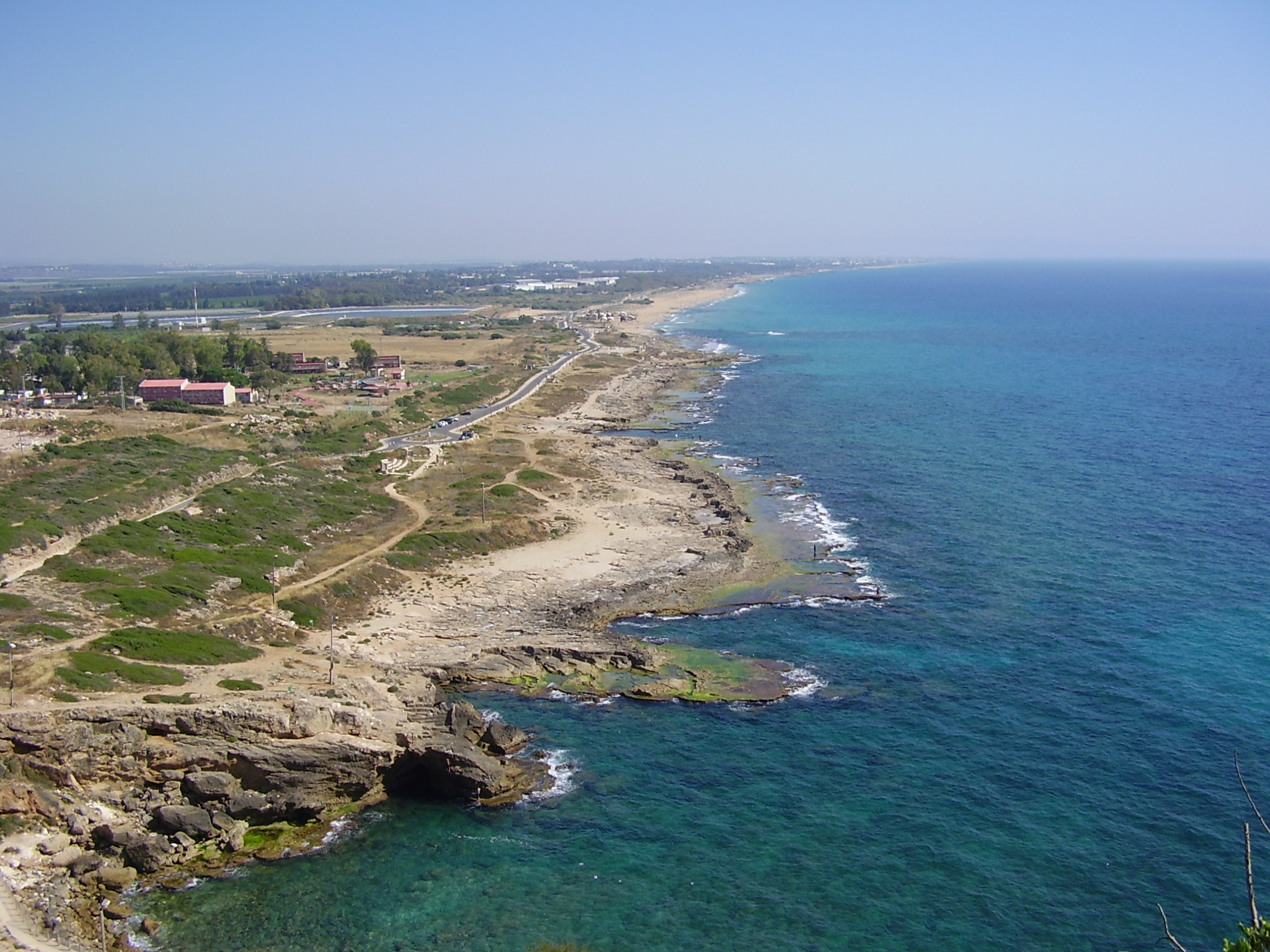 rosh hanikra view